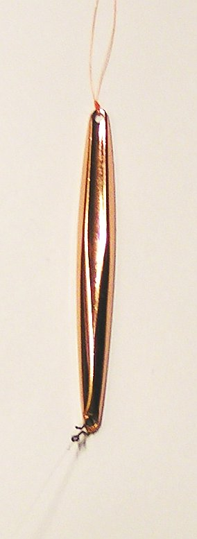 a vertical jig for ice fishing, typical in Scandinavian countries